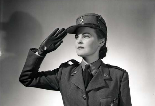 Publicity shot of CWAC member taken in 1943.Reference: This image is available from Library and Archives Canada under the reproduction reference number PA-141000 and under the MIKAN ID number 3205986This tag does not indicate the copyright status of the attached work. A normal copyright tag is still required. See Commons:Licensing for more information. Library and Archives Canada does not allow free use of its copyrighted works. See Category:Images from Library and Archives Canada.